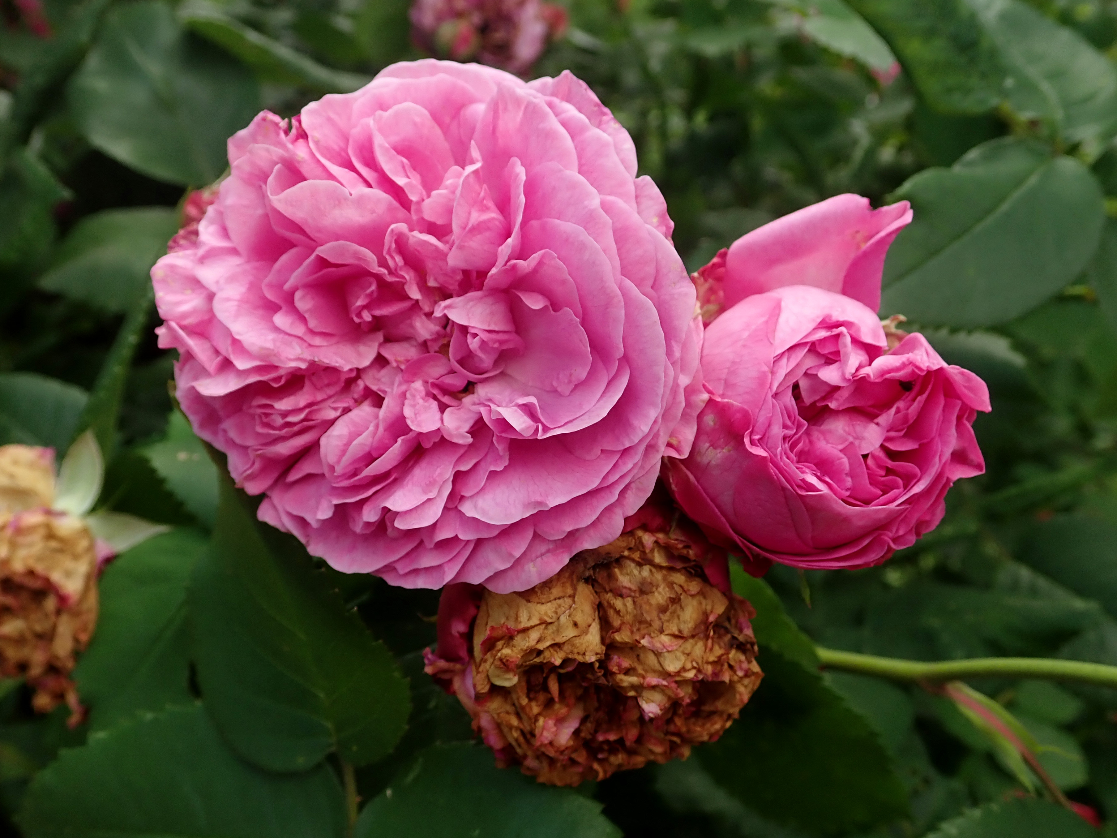 Rosa 'Louise Odier', Arboretum in Wojsławice, Poland.